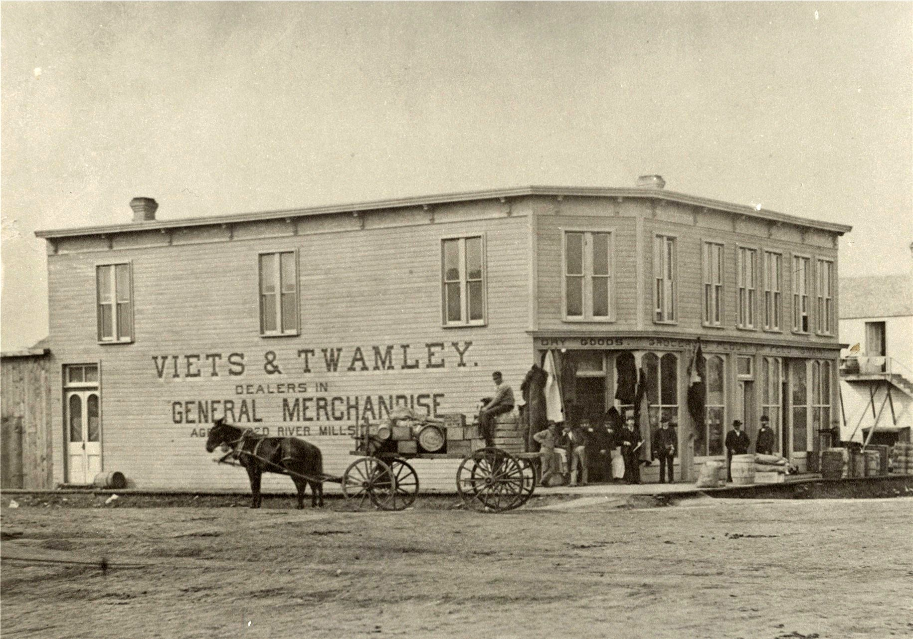 Store in Grand Forks, North Dakota, 1880